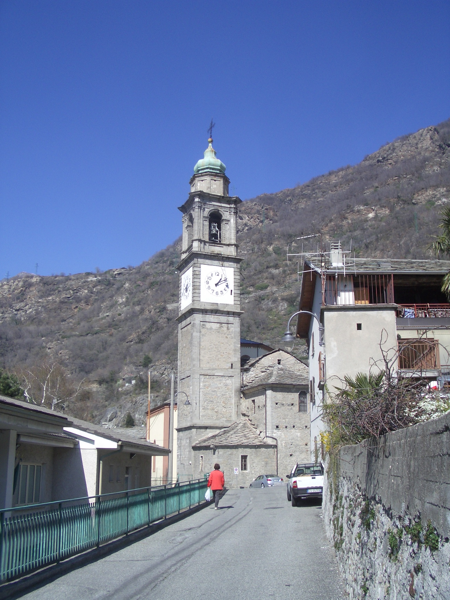 Carema, Parish church)